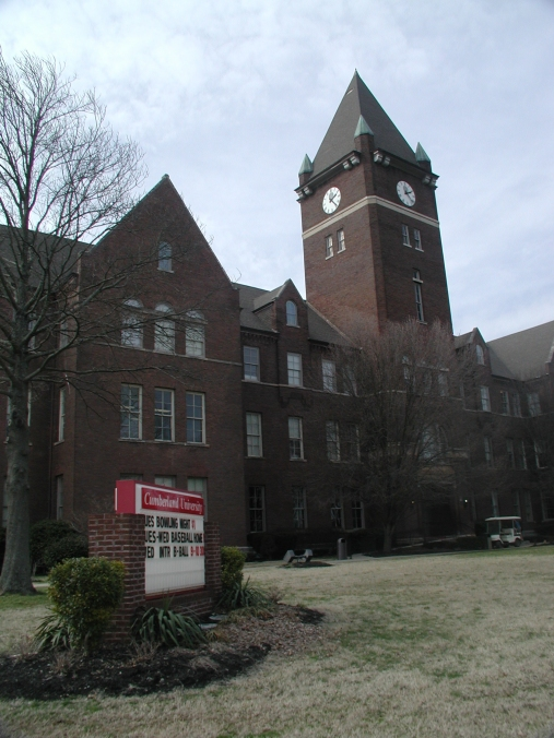 Cumberland University in Lebanon.